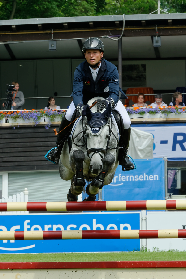 CSIYH* int. Springprüfung nach Strafpunkten und Zeit Internationales Pfingstturnier Wiesbaden 2015 The making of this document was supported by the Community-Budget of Wikimedia Germany.